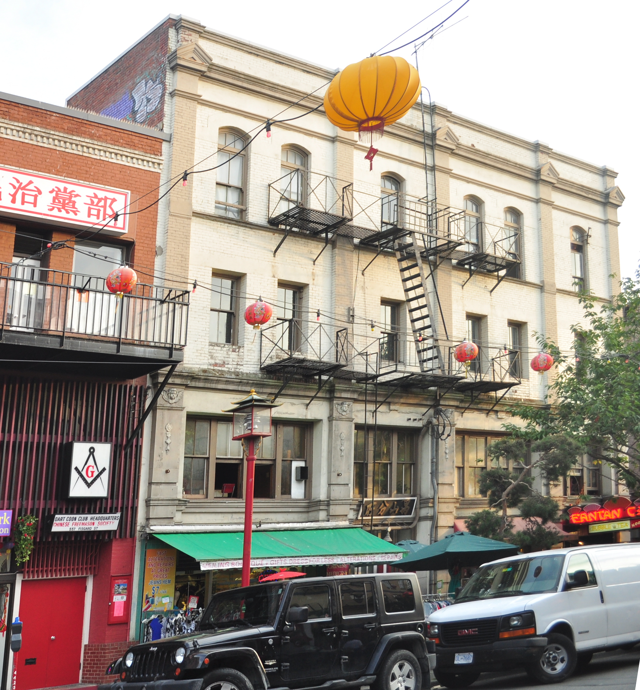 Loo Tai Cho Building, 549-555 Fisgard Street, immediately east of Fan Tan Alley.